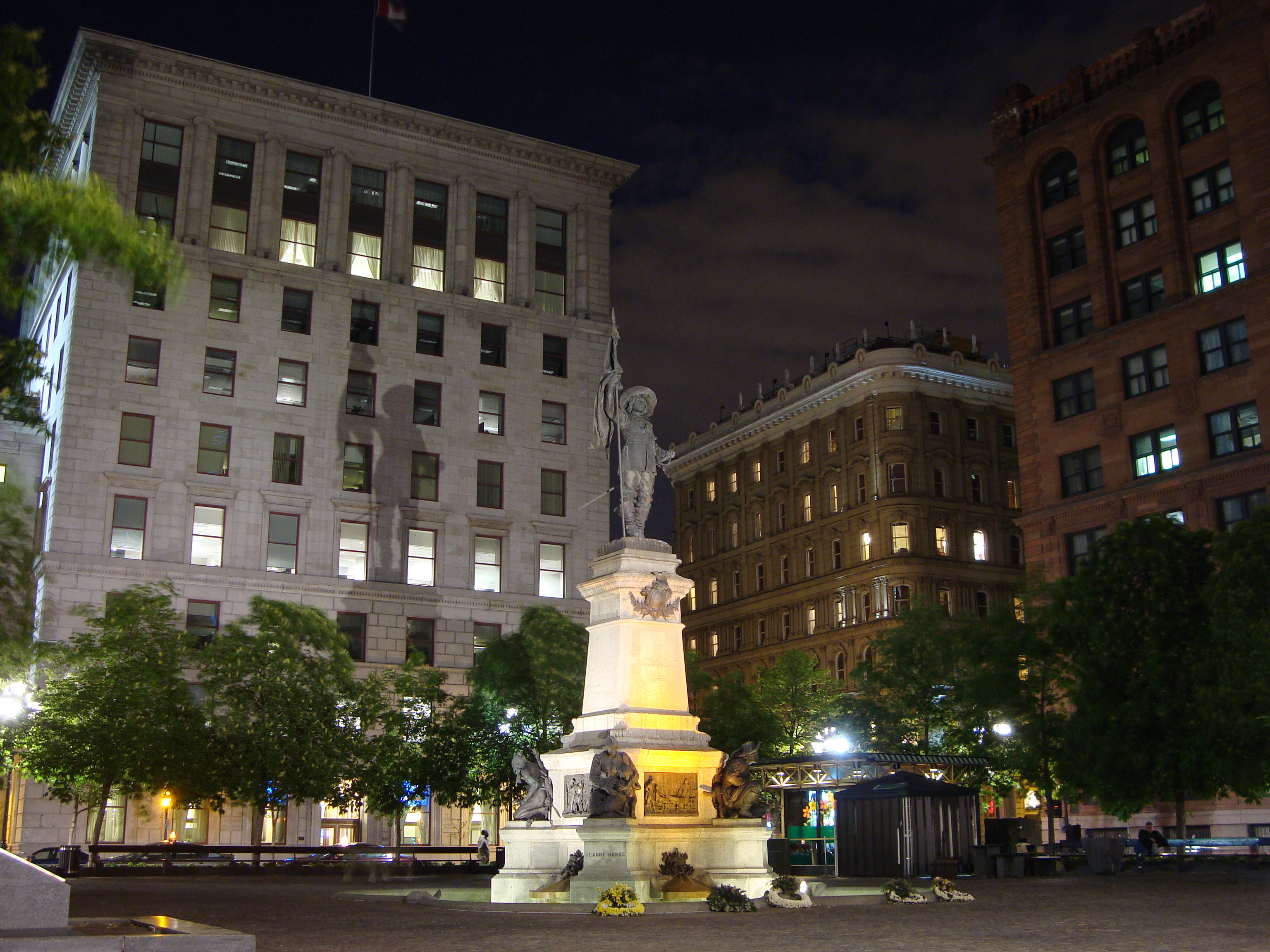 Place d'Armes at night